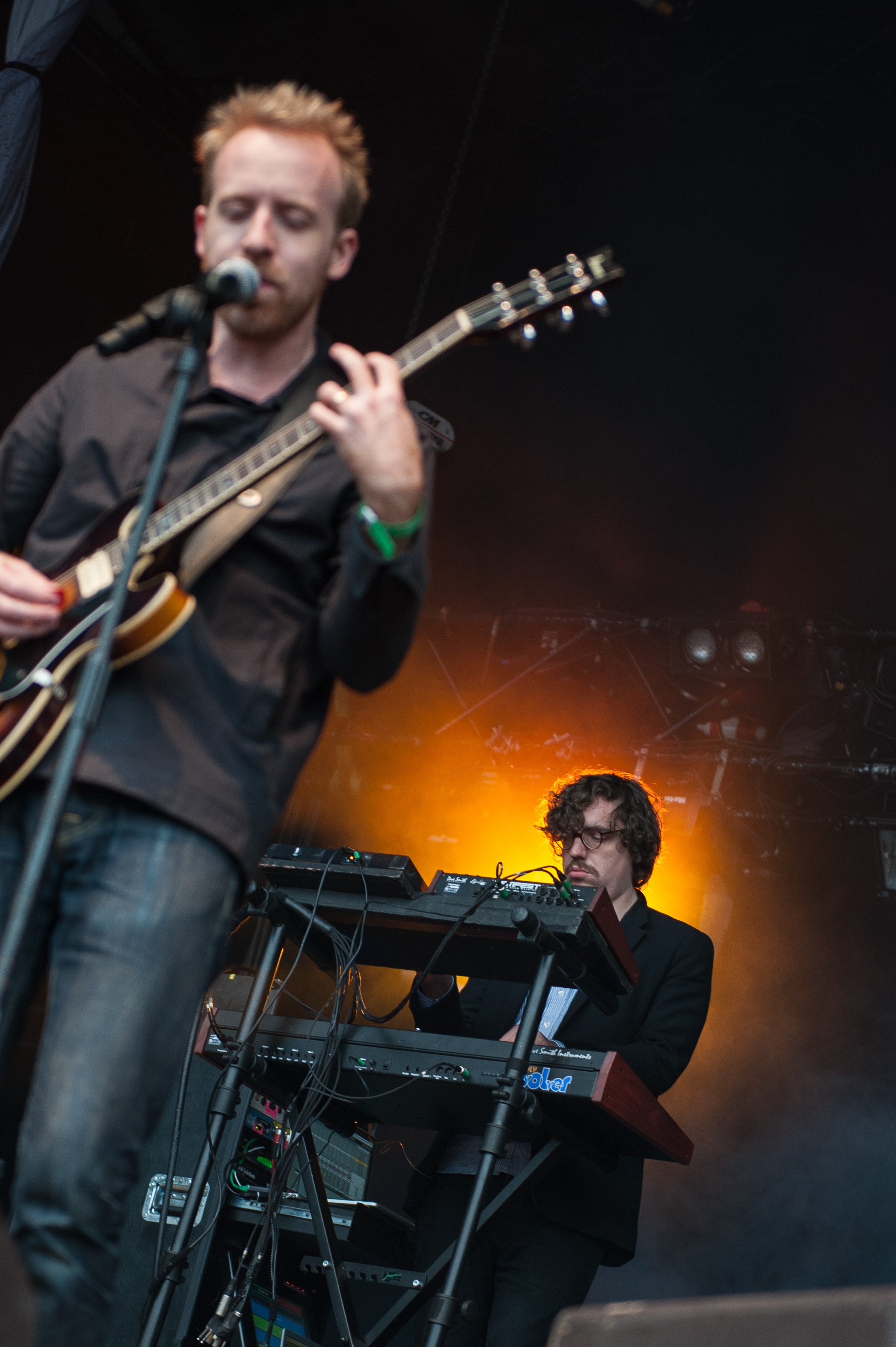 Al Doyle and Felix Martin of Hot Chip at Popaganda 2013 in Stockholm, Sweden